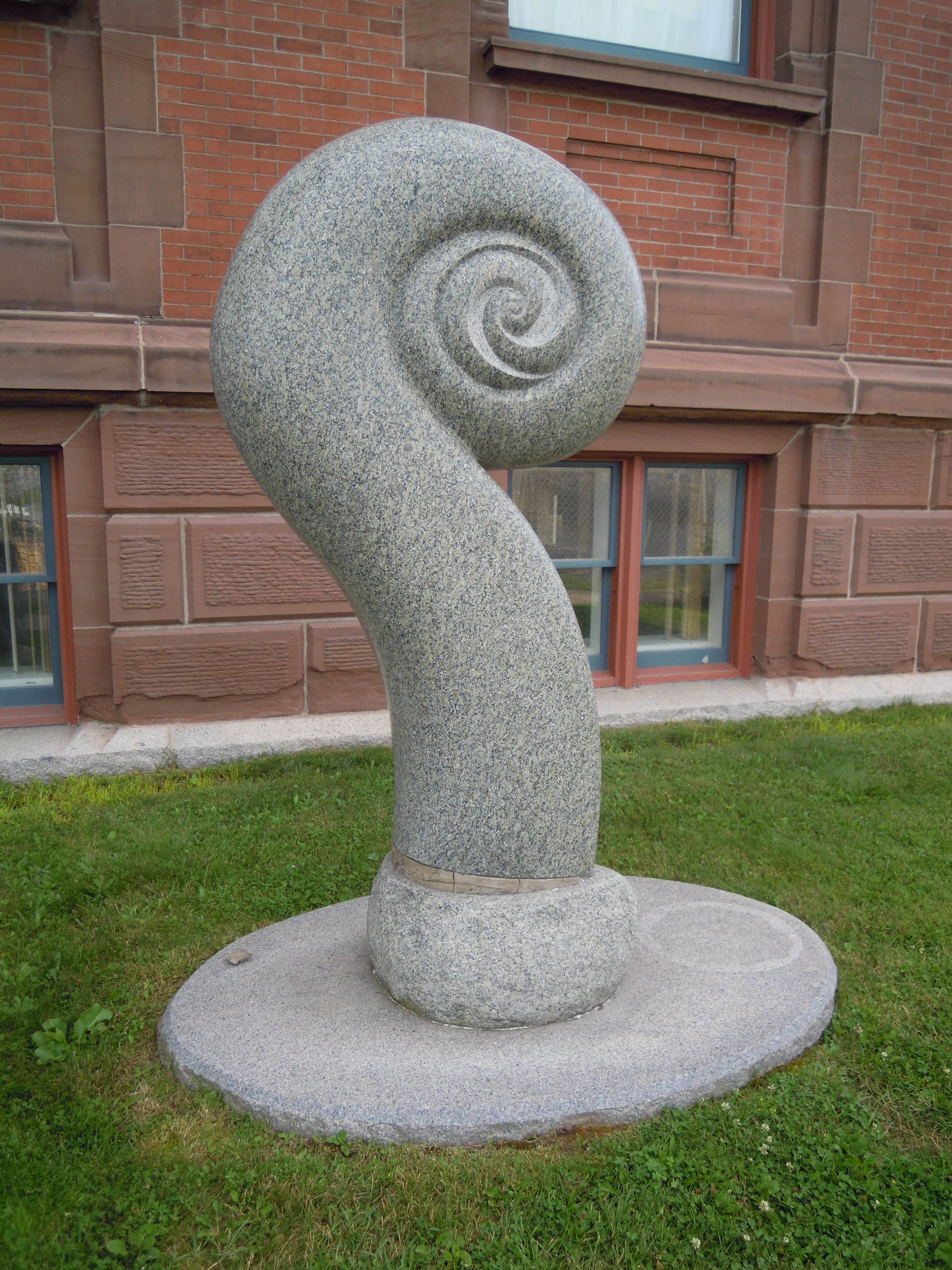 "Fiddlehead" (2001) by James W. Boyd, located in front of the Saint John Arts Centre in Saint John, New Brunswick, Canada.